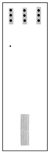 Graphic for Ea aldekoa game